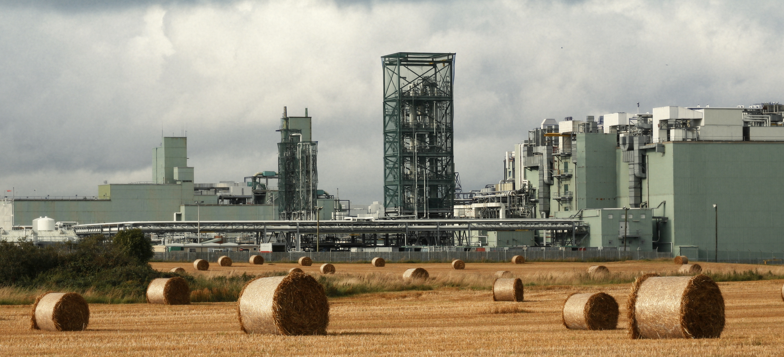 The DuPont plant just outside Derry (Maydown) viewed from a neighbouring field.